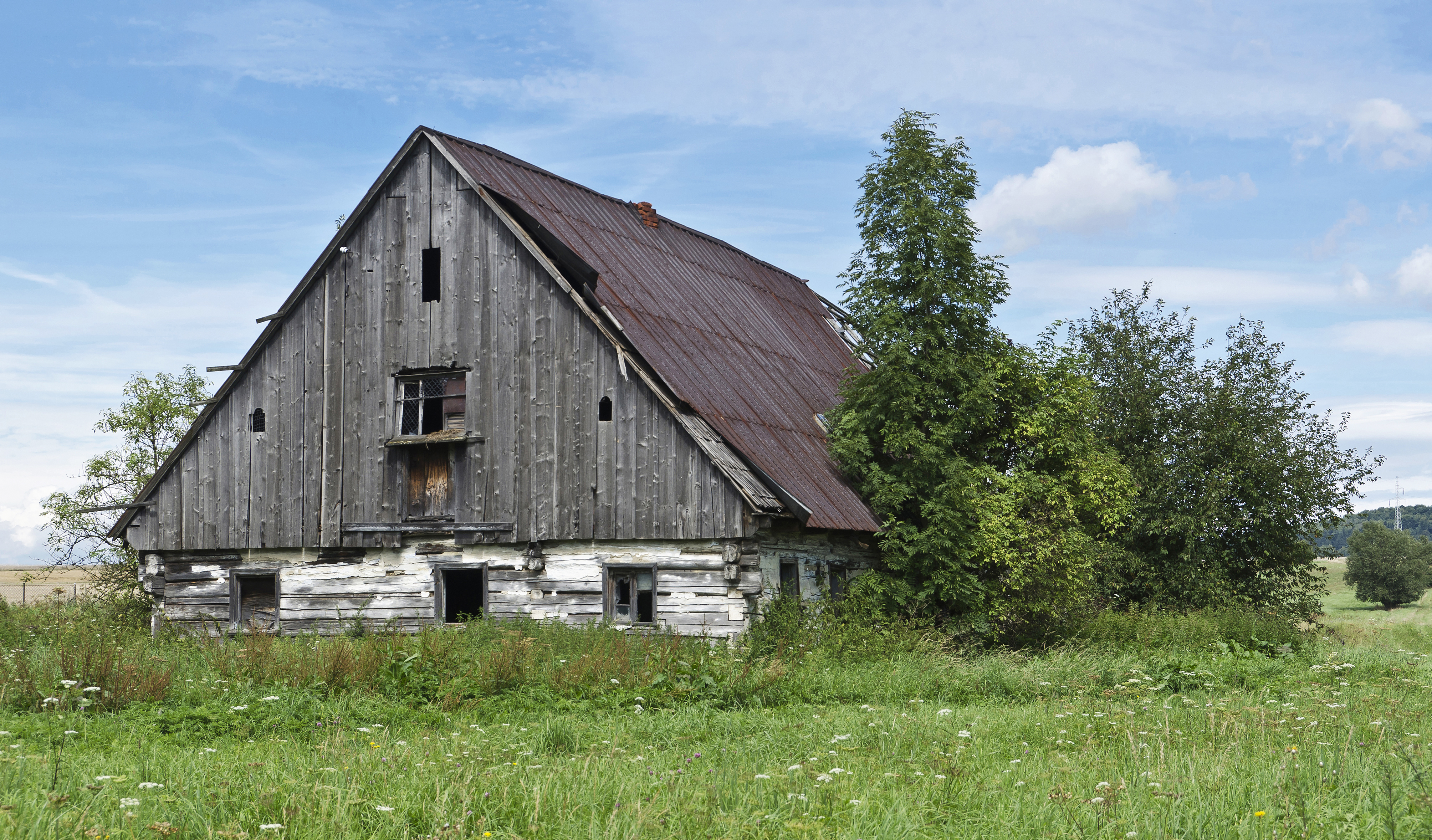 House number 67 in Stary Waliszów